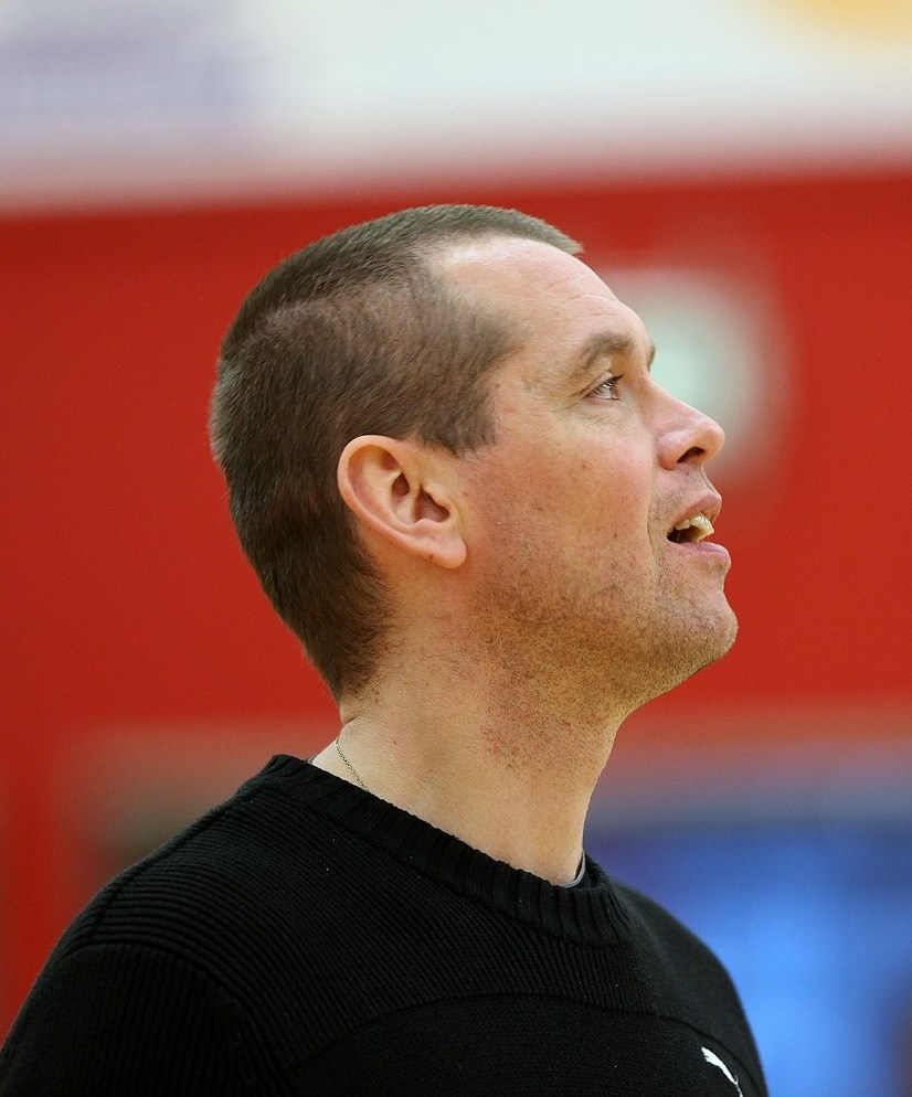 Guðmundur Bragason on 10 January 2009.